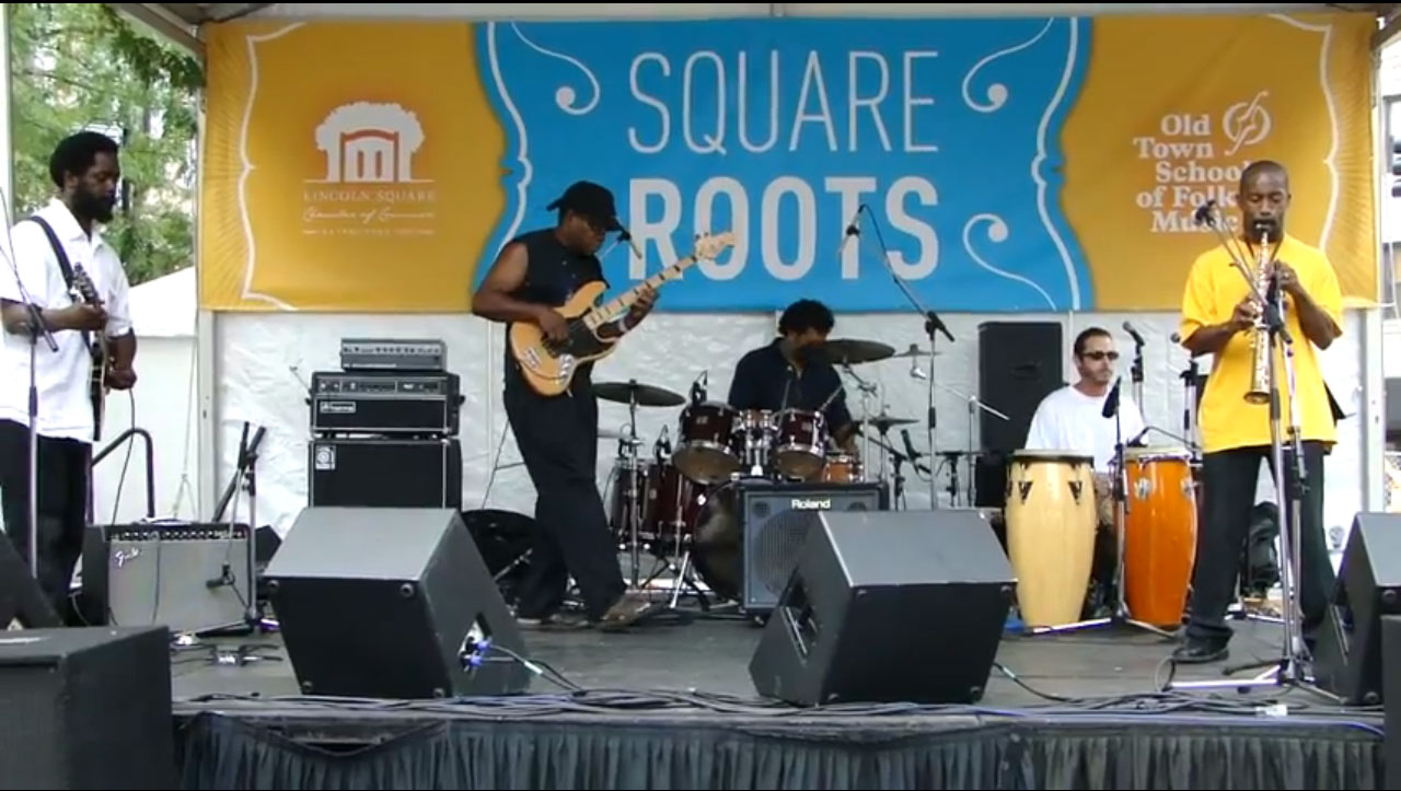 Jazz band Magic Carpet performing at the Lincoln Square event, Square Roots, July 2012.